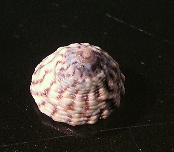 Bembicium melanostoma (Gmelin, 1791), a periwinkle from the family Littorinidae; Australia.